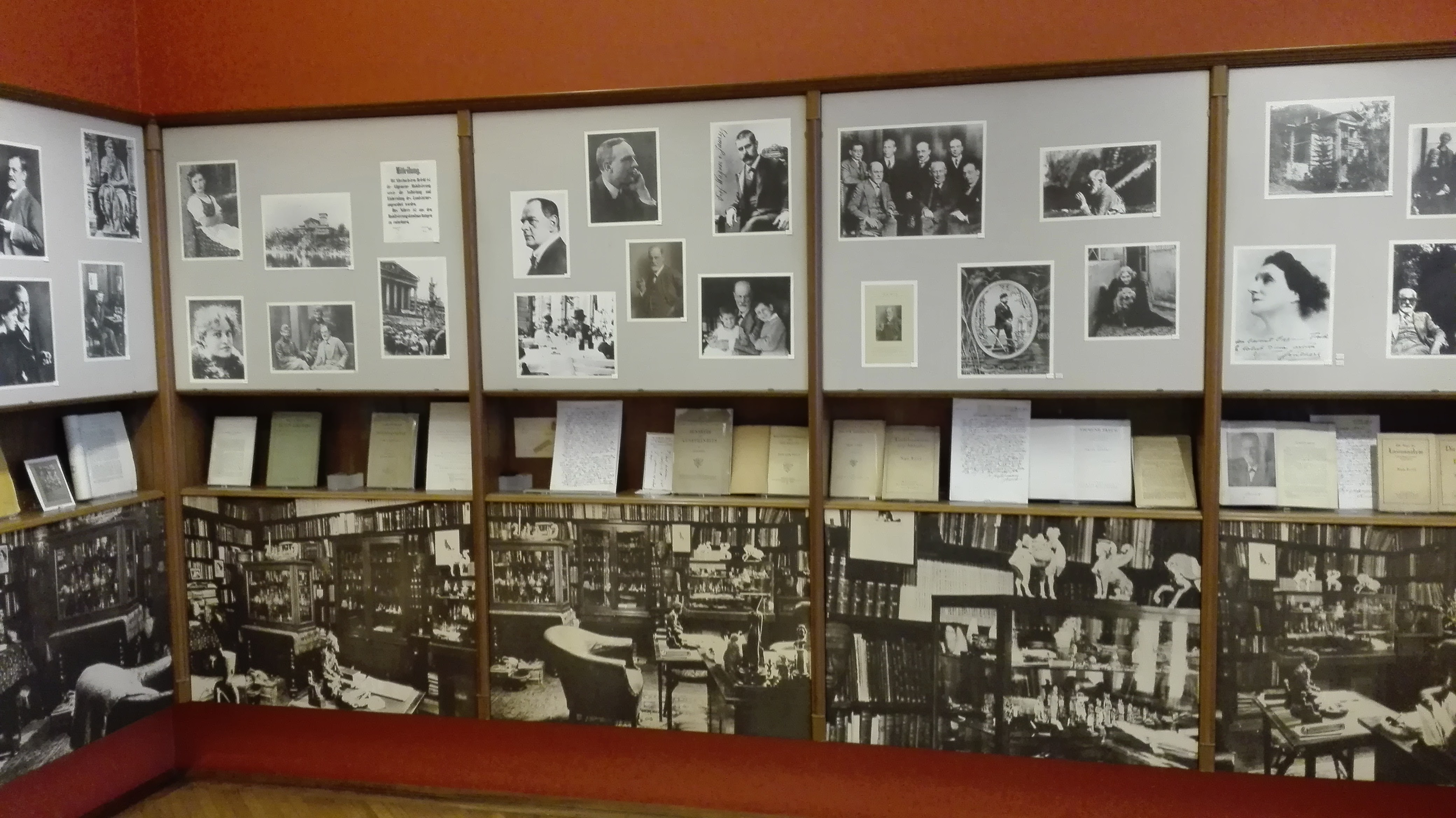 Exhibition in the Sigmund Freud Museum (Berggasse 19, Vienna, Austria)